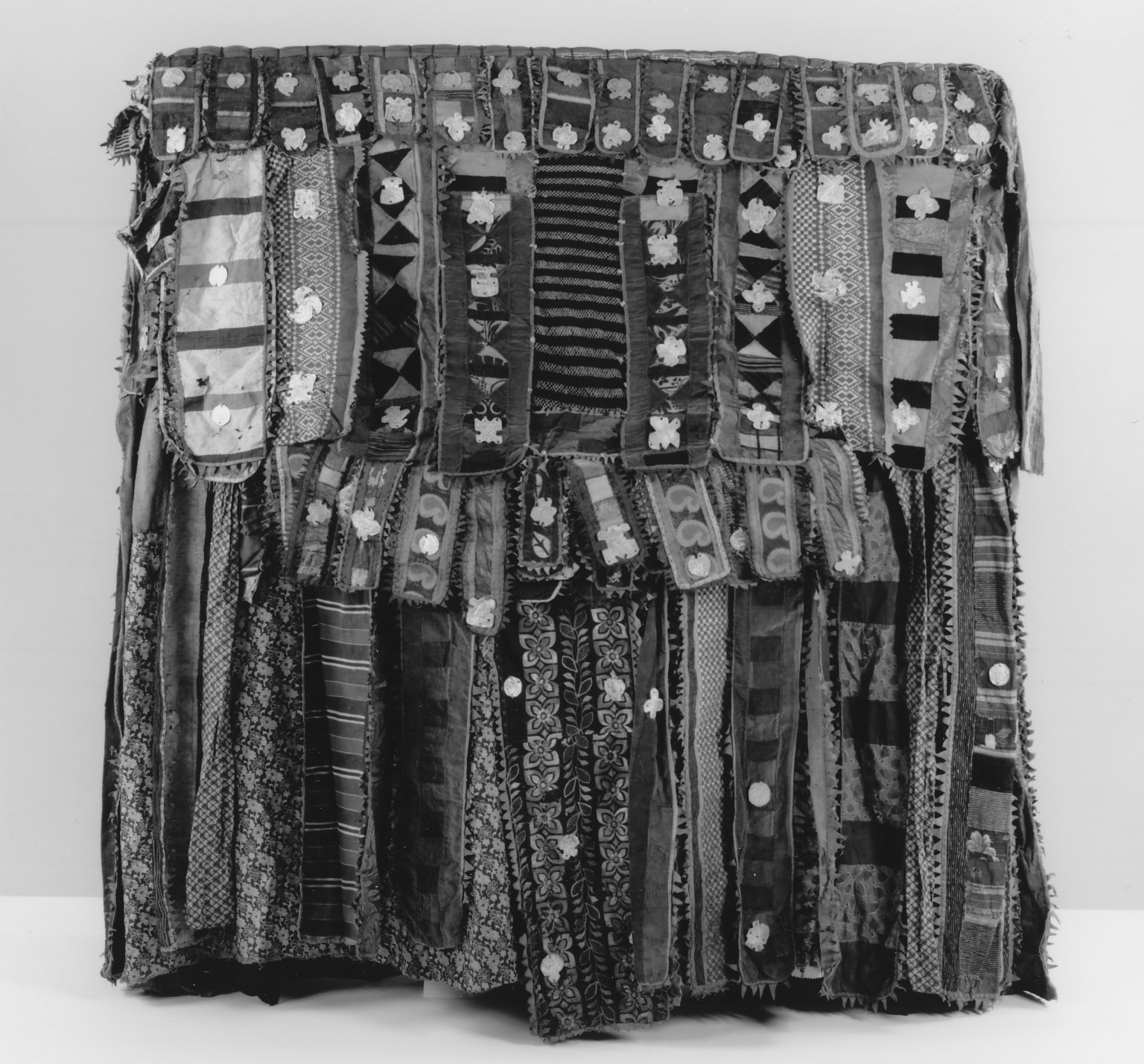 Dance costume composed of a wooden beam, which rests on top of the head, draped in several layers of varied cotton and wool textile panels. Comparatively newer, resist-dyed and factory made cloths are on the outer layer of textile panels, while indigo(?)-dyed panels are underneath. Textile panels are decorated with embossed and perforated aluminum geometric objects, sewed onto the surface. Condition : good. Conservation backing has been sewn onto the back of the innermost layer of panels. Two longer panels are separate from the main assemblage.